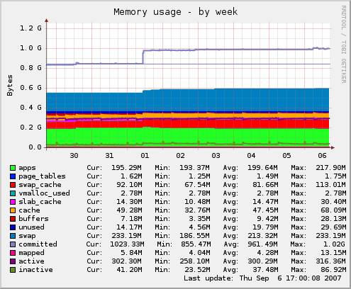 Monitoring with Munin : memory usage.